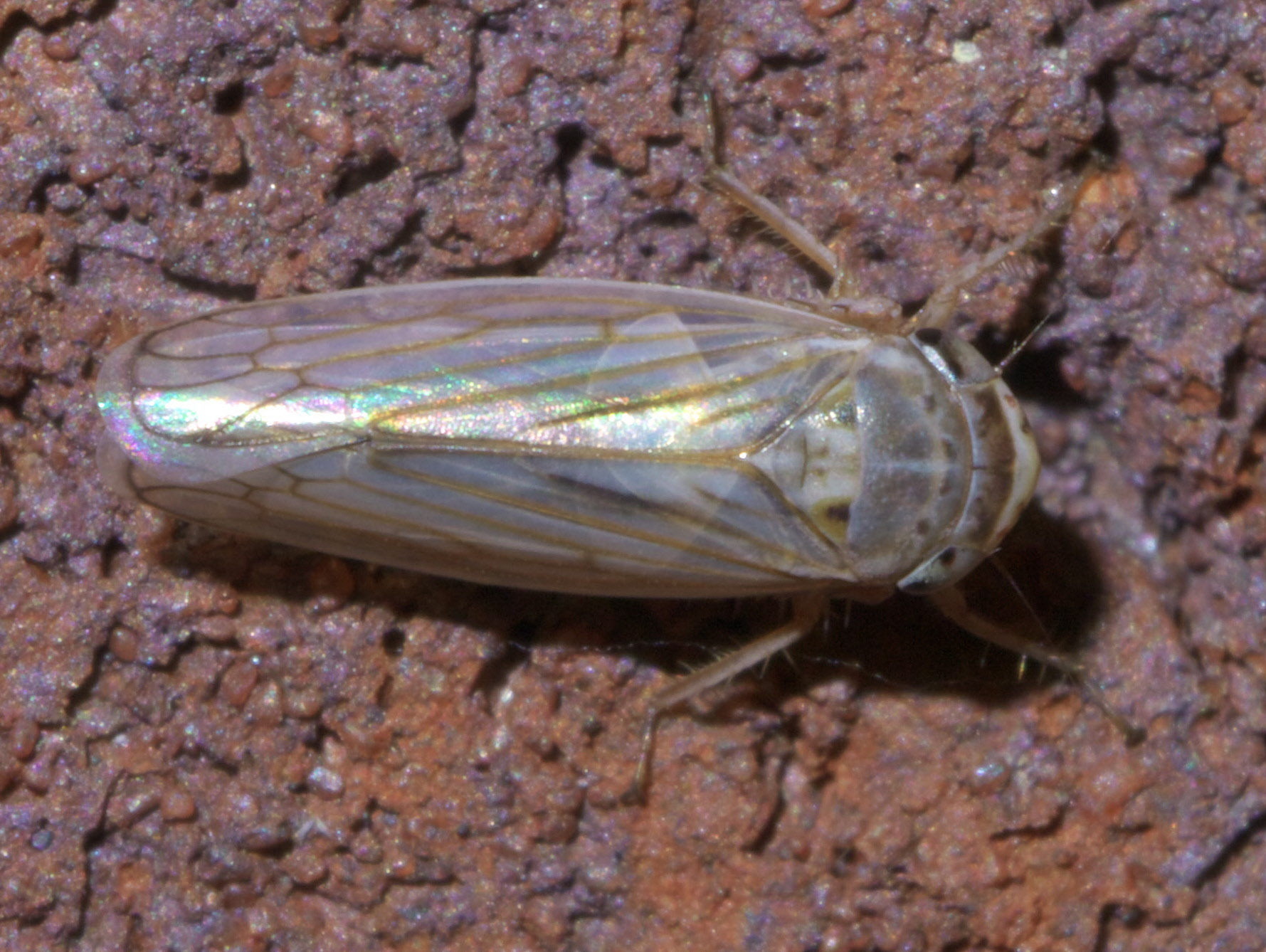 Exitianus exitiosus, Gray Lawn Leafhopper, Size: 4.9 mm, ID Confidence: 98